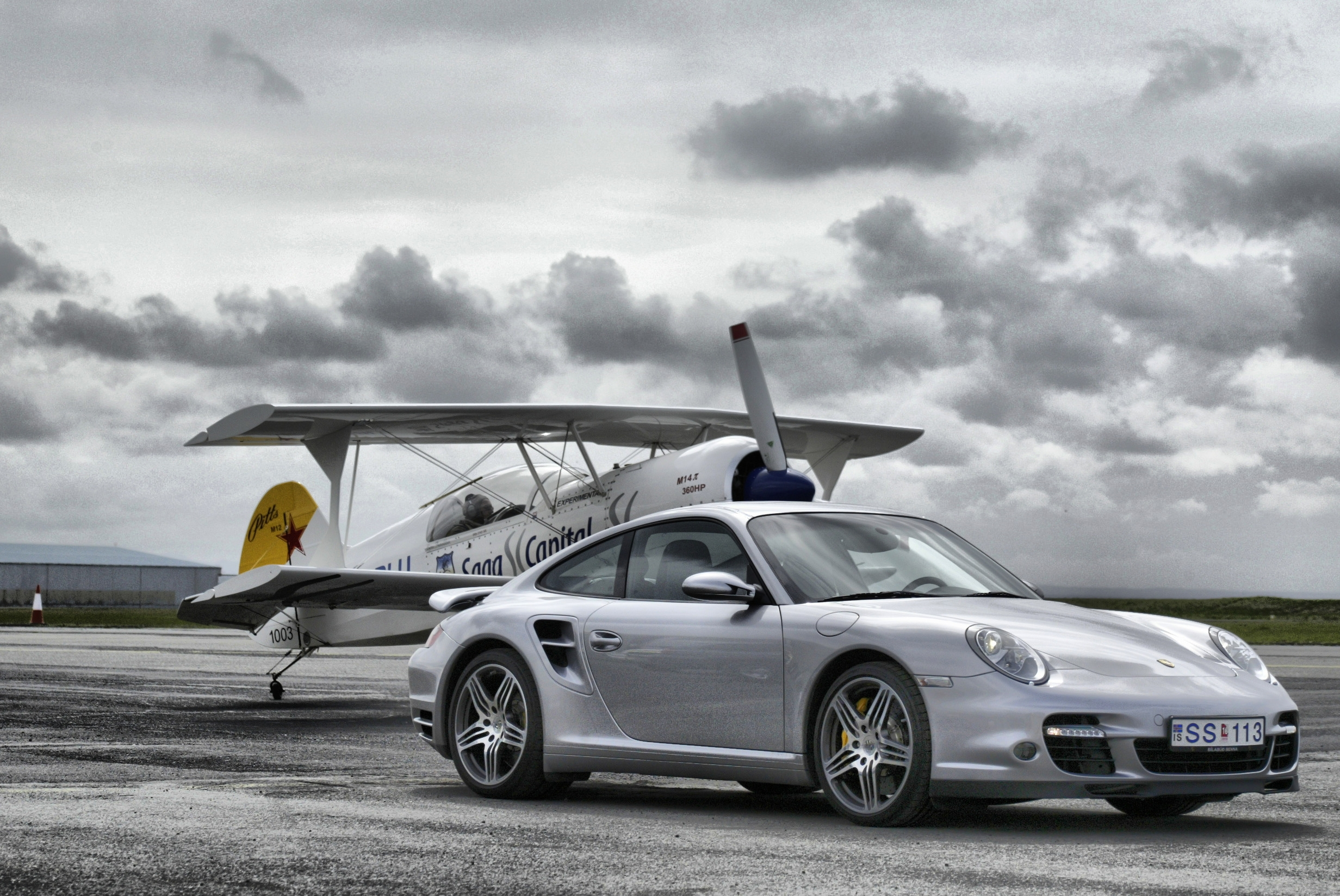 Silver Porsche 997 turbo Coupé and a Pitts Special Model 14.